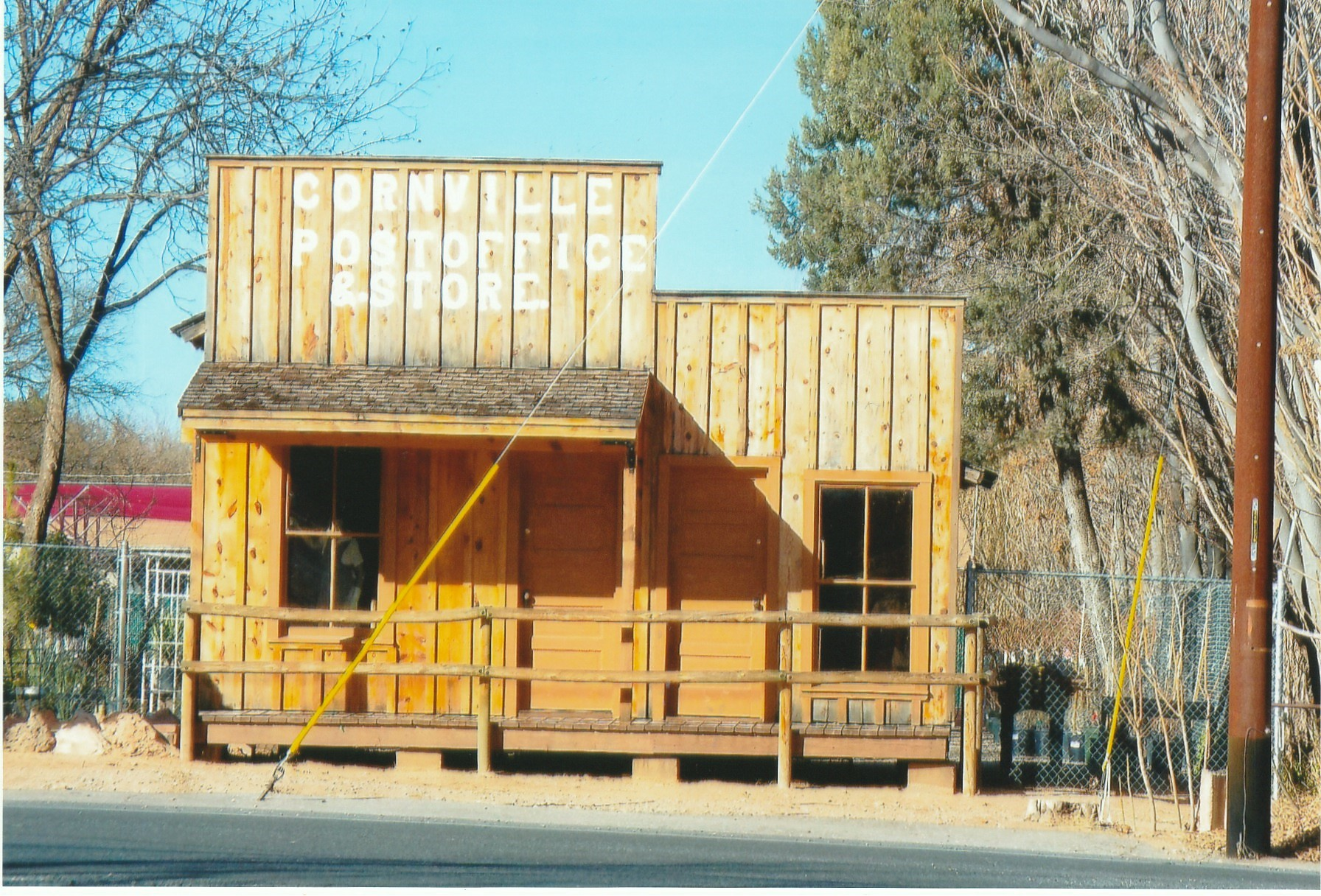 1909 Cornville Post Office on 9530 Cornville Road in Cornville, Arizona.